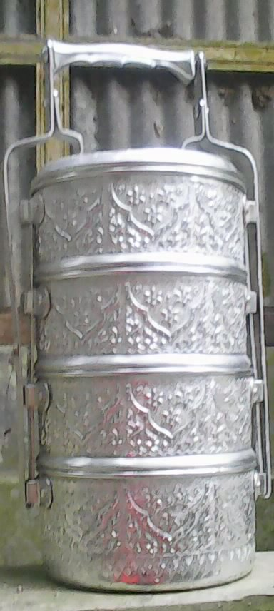 It is a tiffin box which was made in Thailand.It has some artistic pattern.It has four boxes